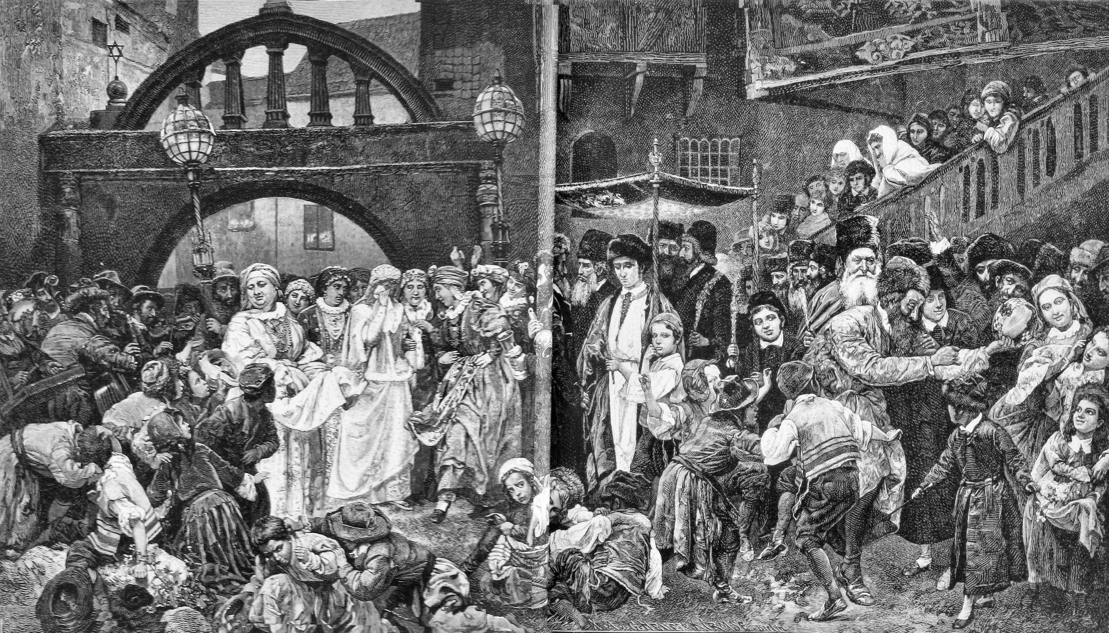 caption: "Jüdische Hochzeit in Galizien. Nach dem Oelgemälde von W. Stryowski."